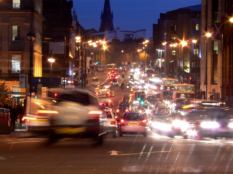 Lothian Road, in central Edinburgh. Taken from its junction with the West End of Princes Street.